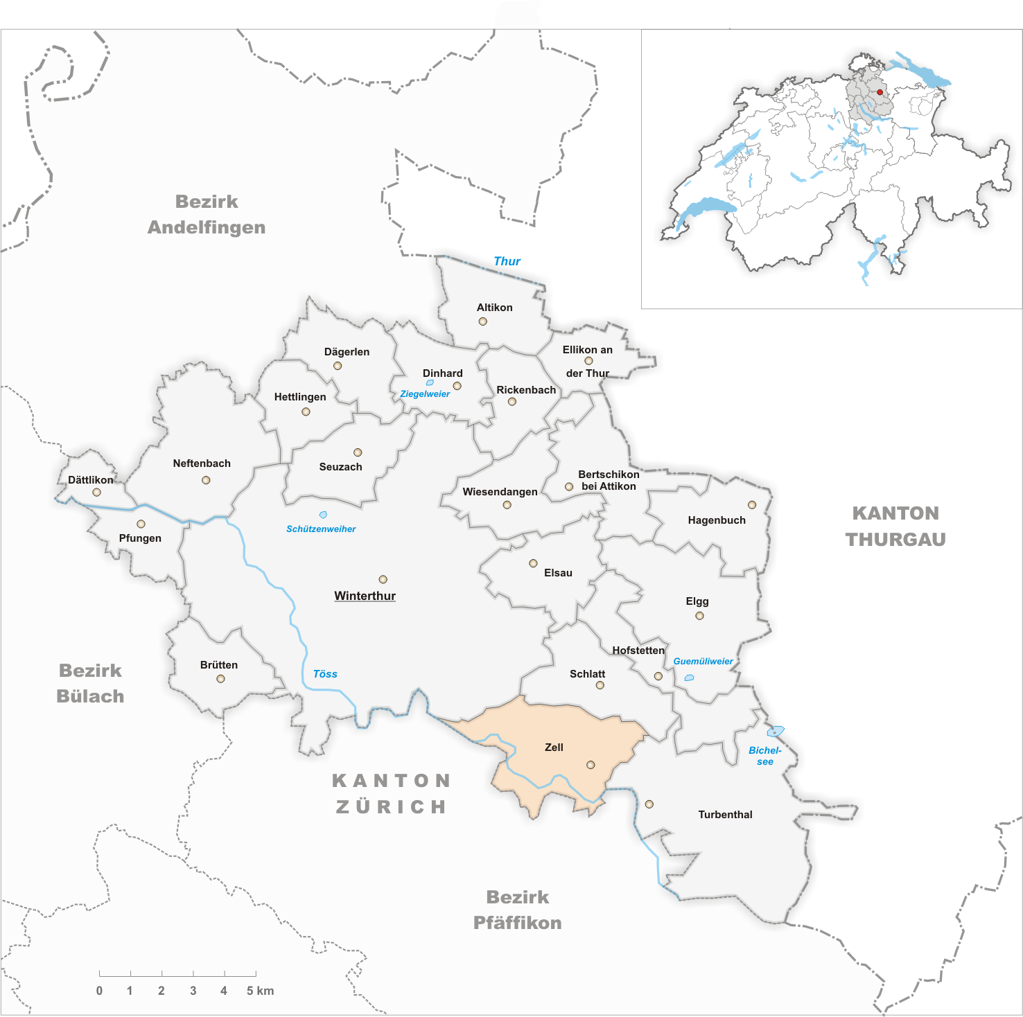 Municipality Zell